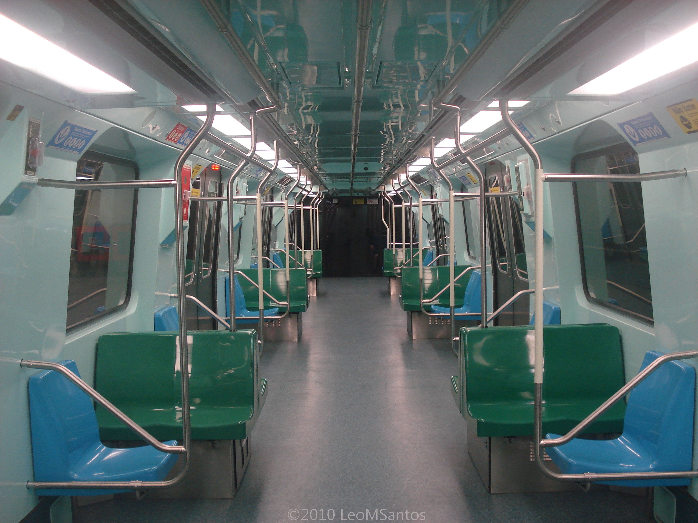 Internal View of the train Alstom A96, from Line 2 - Green of São Paulo Metro.